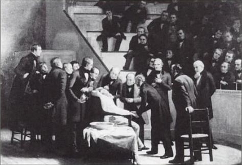 Depicts the first surgical operation using ether as an anaesthetic in Boston in 1846; Hinckley painted this image between 1881-96; the surgeon depicted in John Warren and the anaesthetist is William Morton